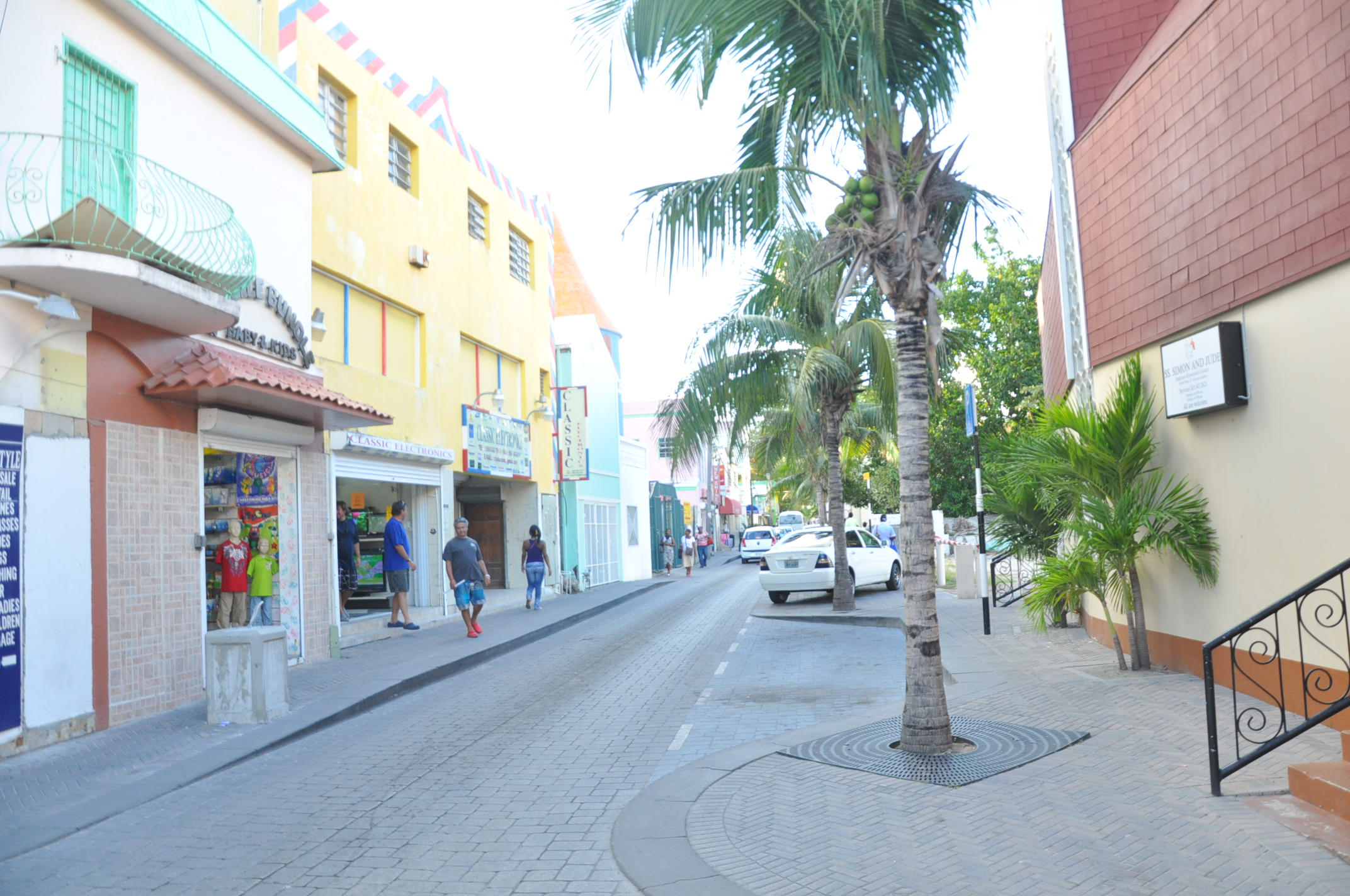 A Picture of a section of Backstreet St. Maarten.